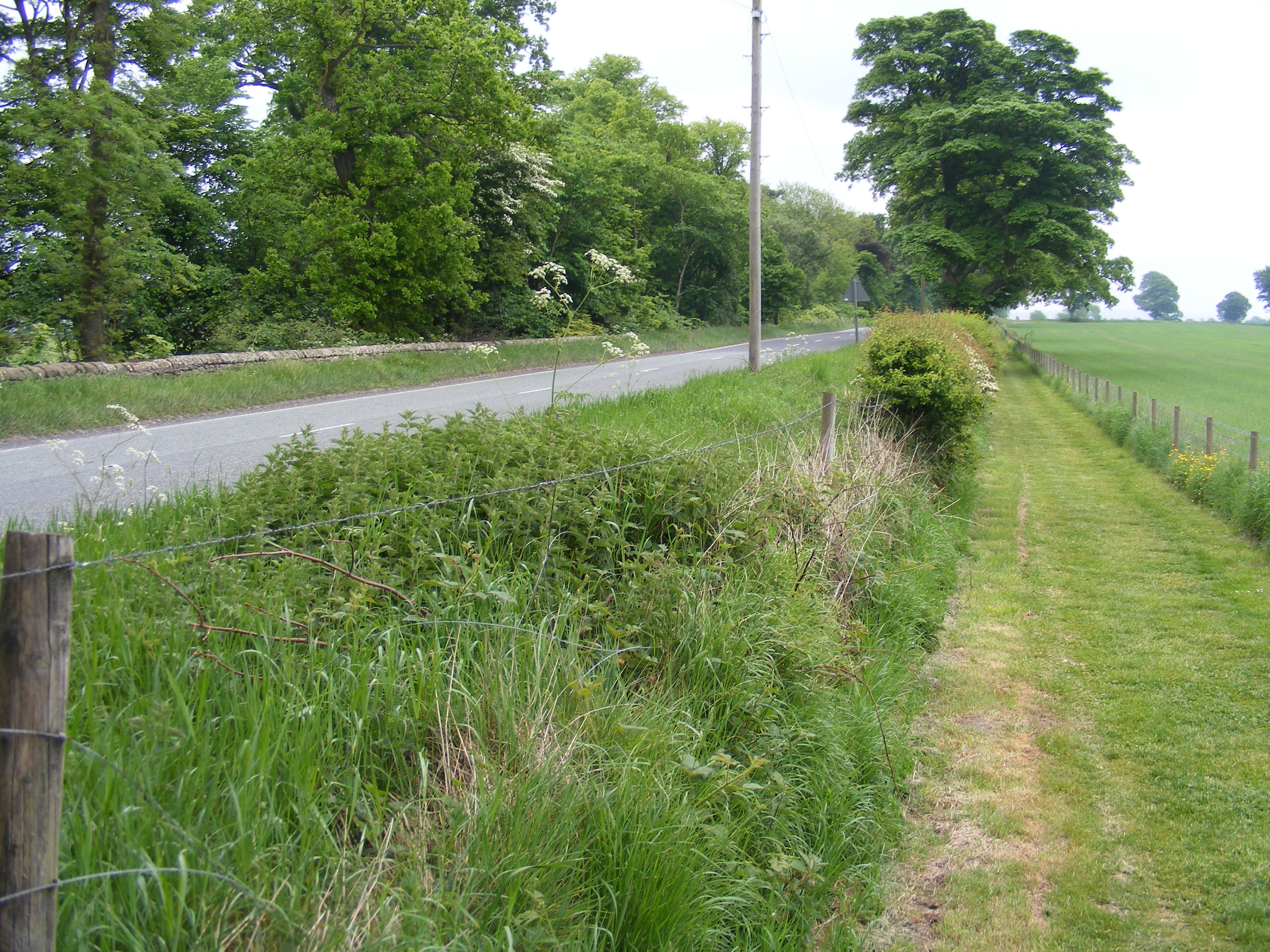 Hadrian's Wall - Site of Turret 19B